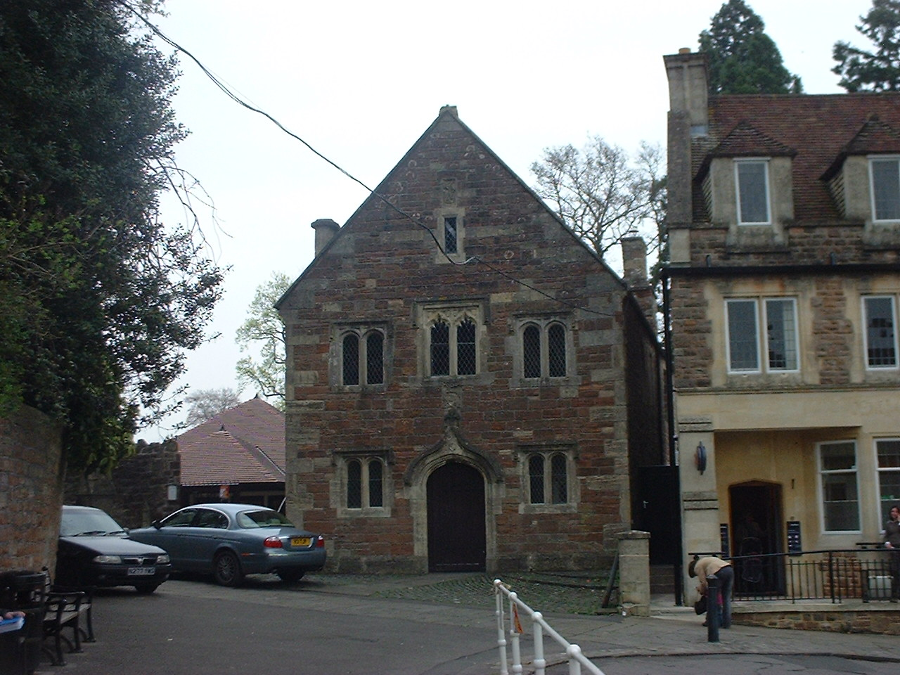 The Old School Room, Chew Magna. Taken by Rod Ward 24th April 2006